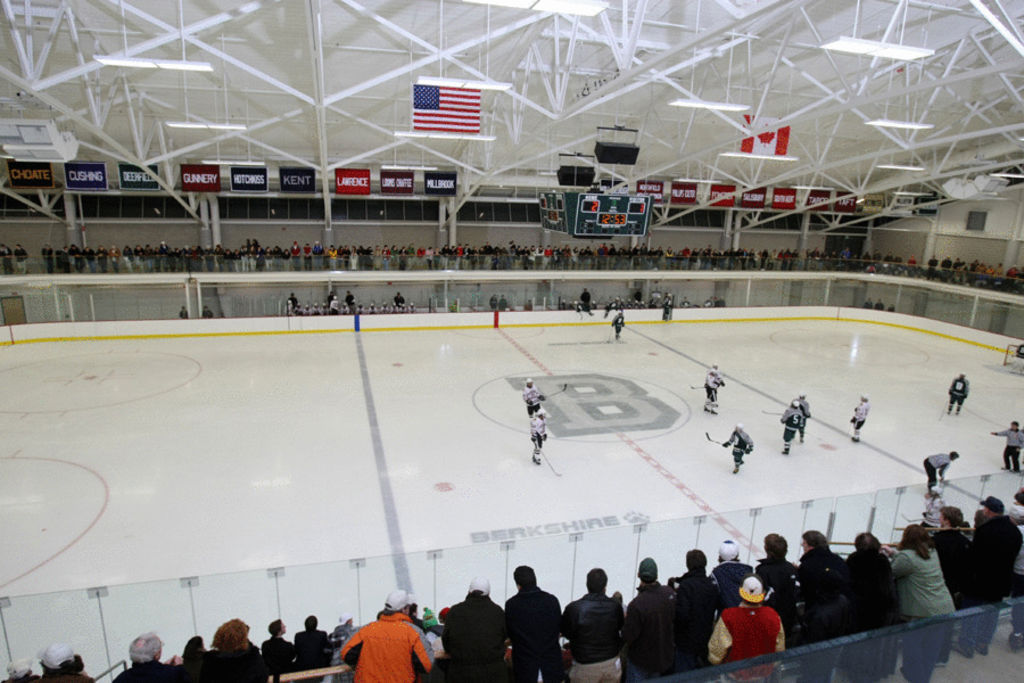 berkshire rink